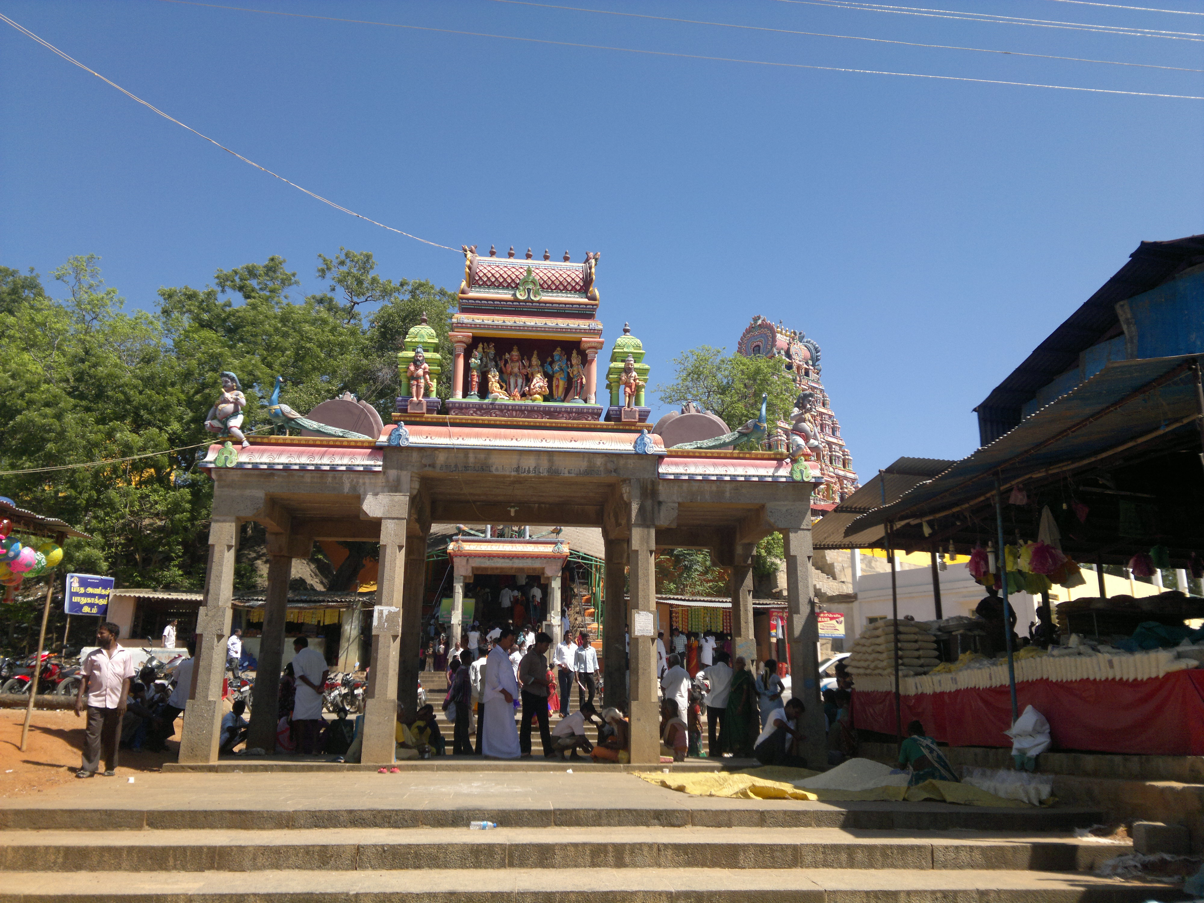 Entrance of the temple